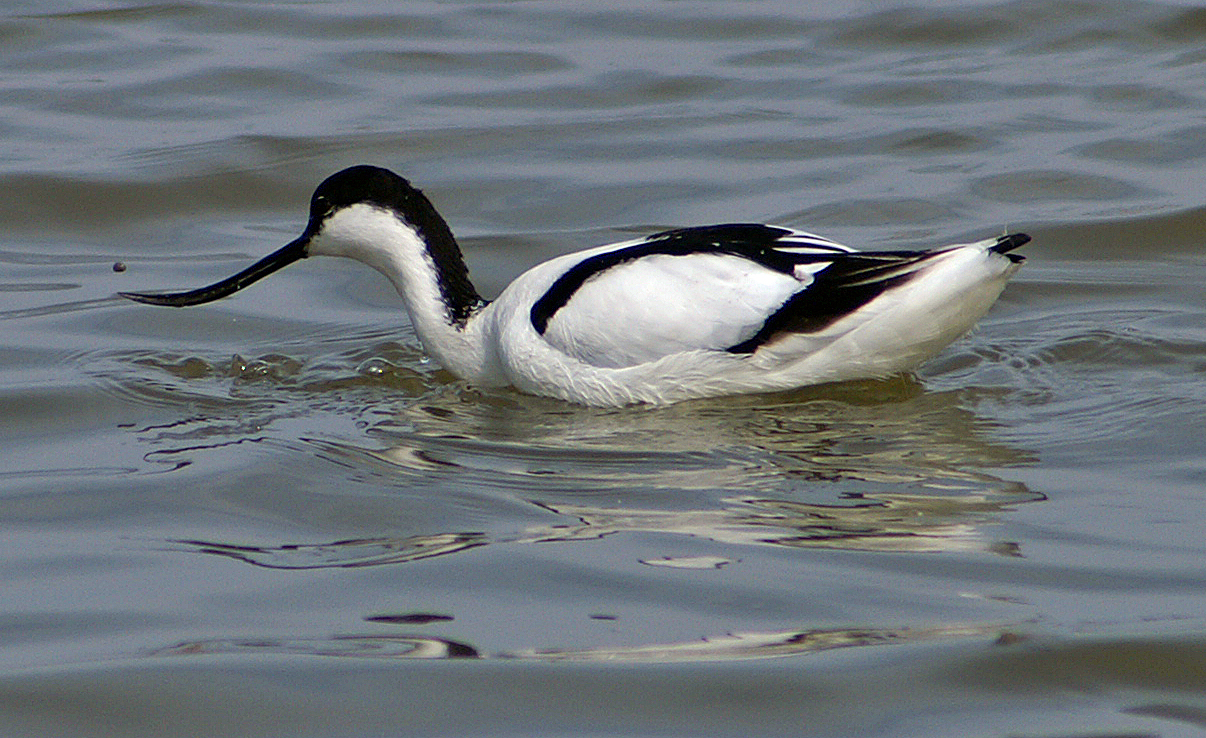 A Pied Avocet swimming at Titchwell Marsh, Norfolk, England.